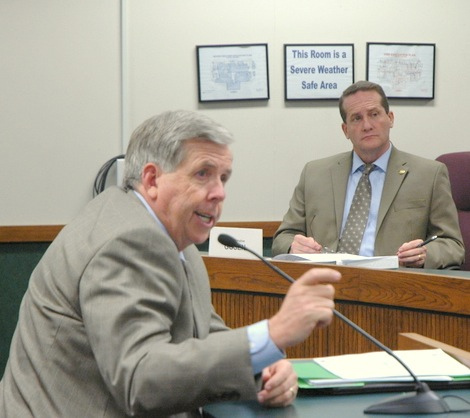 State Sen. Mike Parson, R-Bolivar, proposes SB-113 and testifies at the House Elections Committee on Monday, February 20, 2012. The committee voted 7 to 2 in favor of the bill. (Jiselle Macalaguin/KOMU)